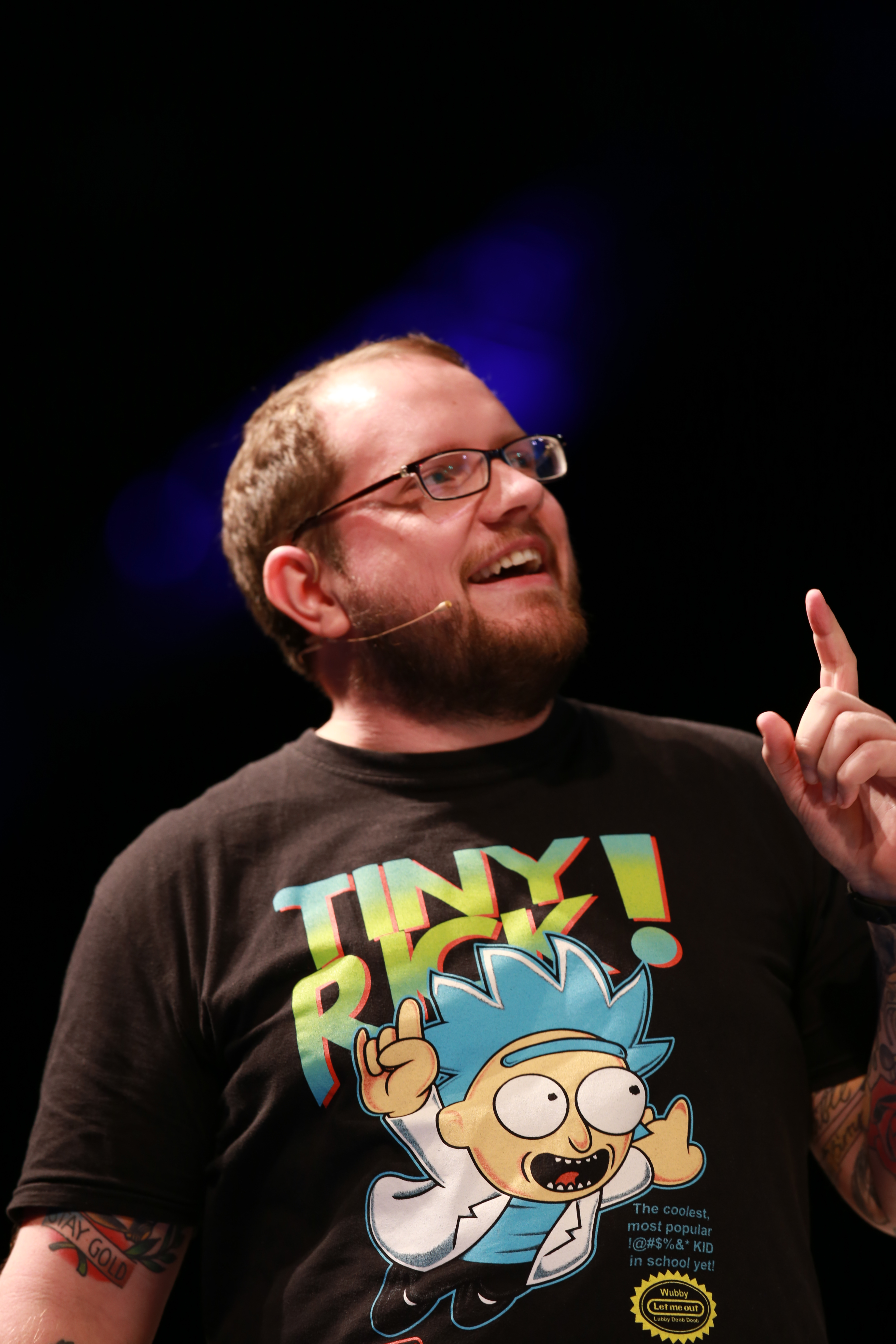 Reinhard Remfort, 34th Chaos Communication Congress, Leipzig.